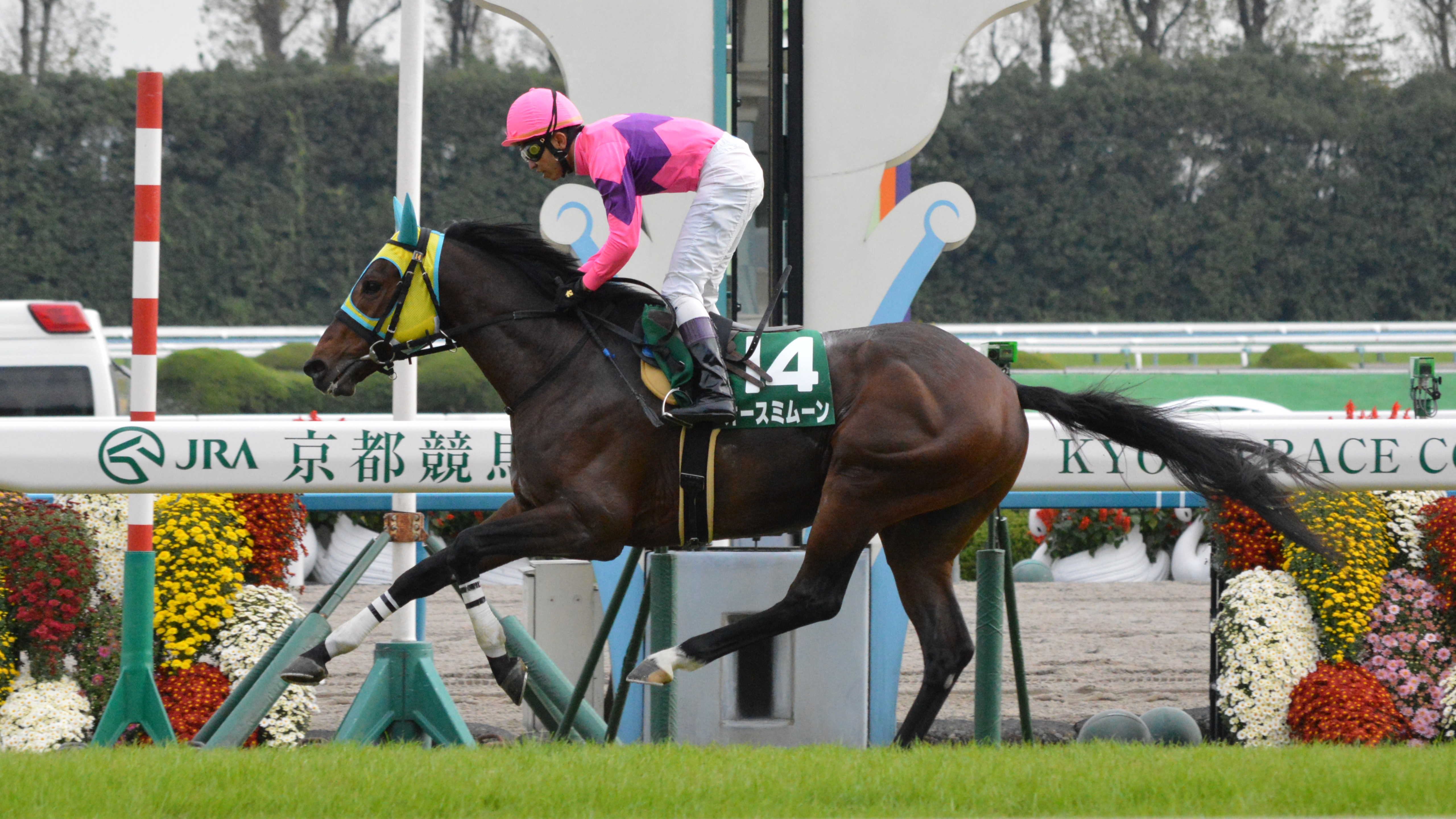 Japanese race horse Osumi Moon at Kyoto racecourse.